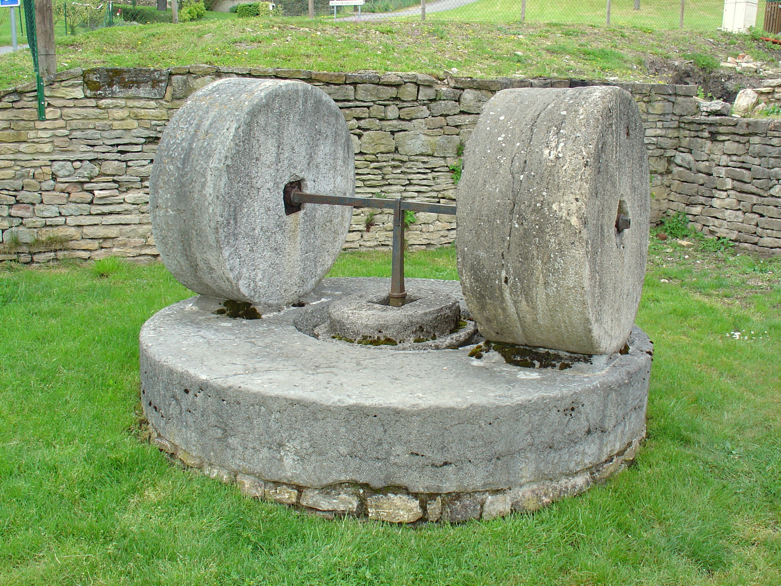 Millstone used for gypsum. Berzé-la-ville, Saône et Loire (71), France